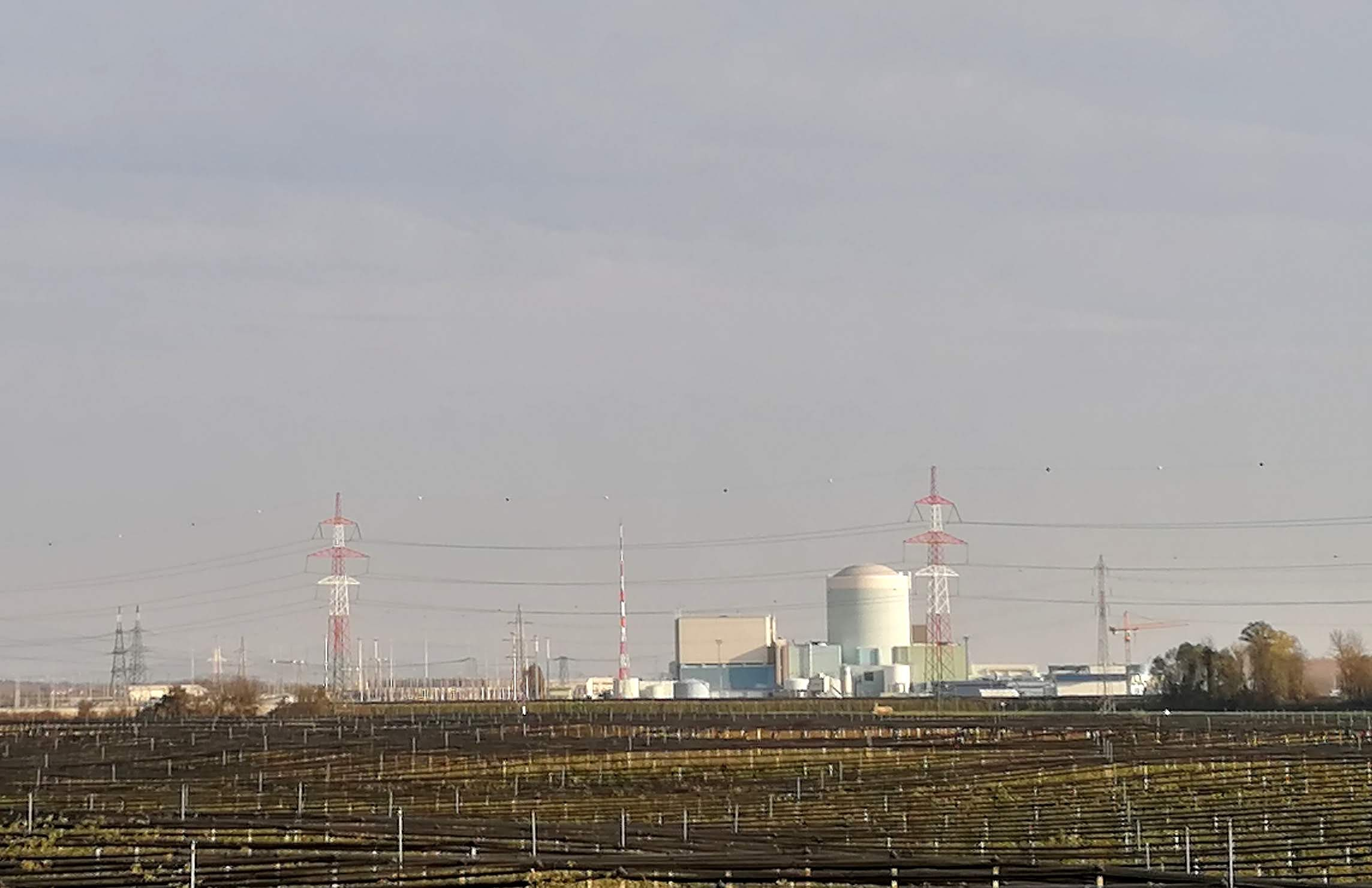 Nuclear power plant Krško, 2019